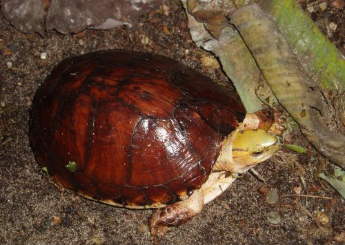 Cuora mccordi female by Torsten Blanck